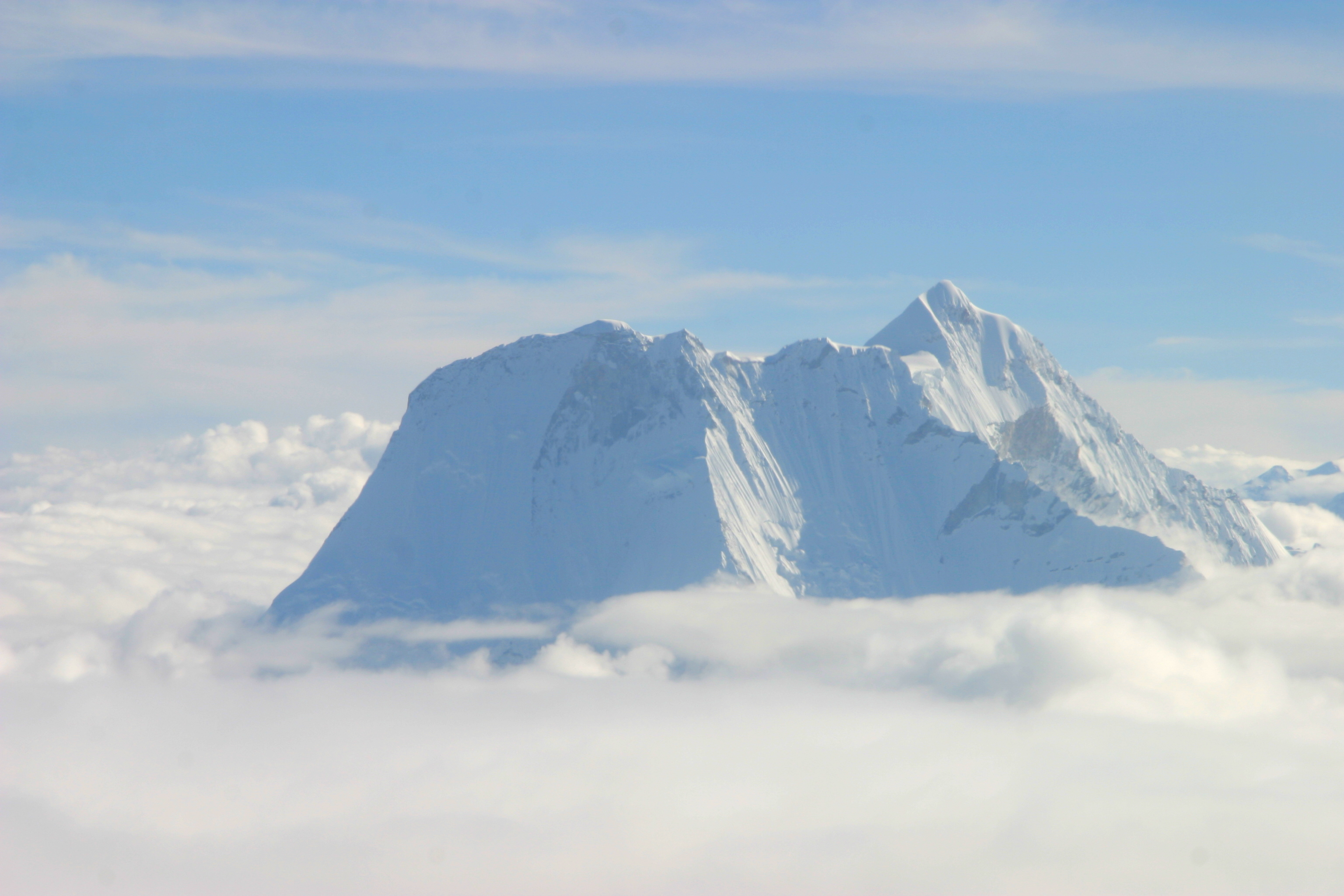 Melungtse (7181 m) from a plane. Main summit in the background, Melungtse II is the left peak on the ridge in the foreground.